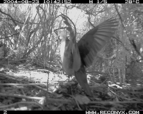 Grenada Dove Leptotila wellsi, Black Bay Delta , Concord River Watershed Grenada W.I. Grenada. Grenada Dry Forest Biodiversity Conservation Project